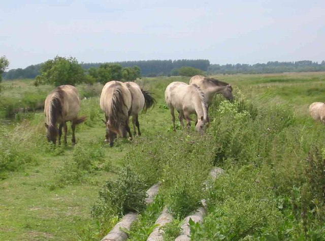 Minsmere Bird Sanctuary. The Koniks are just a few metres away from the wetland and keep the grass short for plovers and similar birds